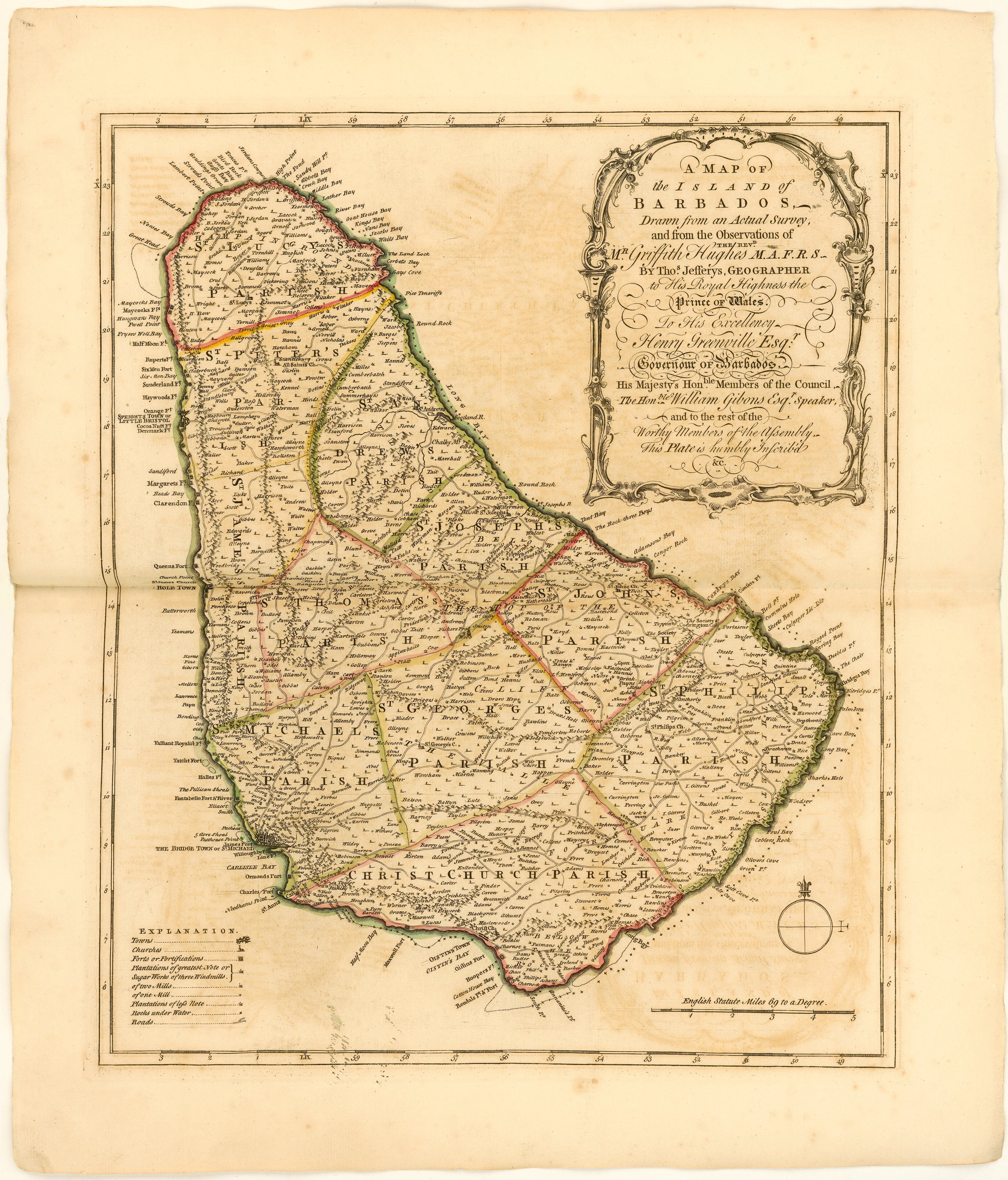 A Map of the Island of Barbados Drawn from an Actual Survey, and from the Observations of the Revd. Mr. Griffith Hughes, M.A.F.R.S. By Thomas Jefferys, Geographer. Map published in Griffith Hughes' The natural history of Barbados (London, 1750)